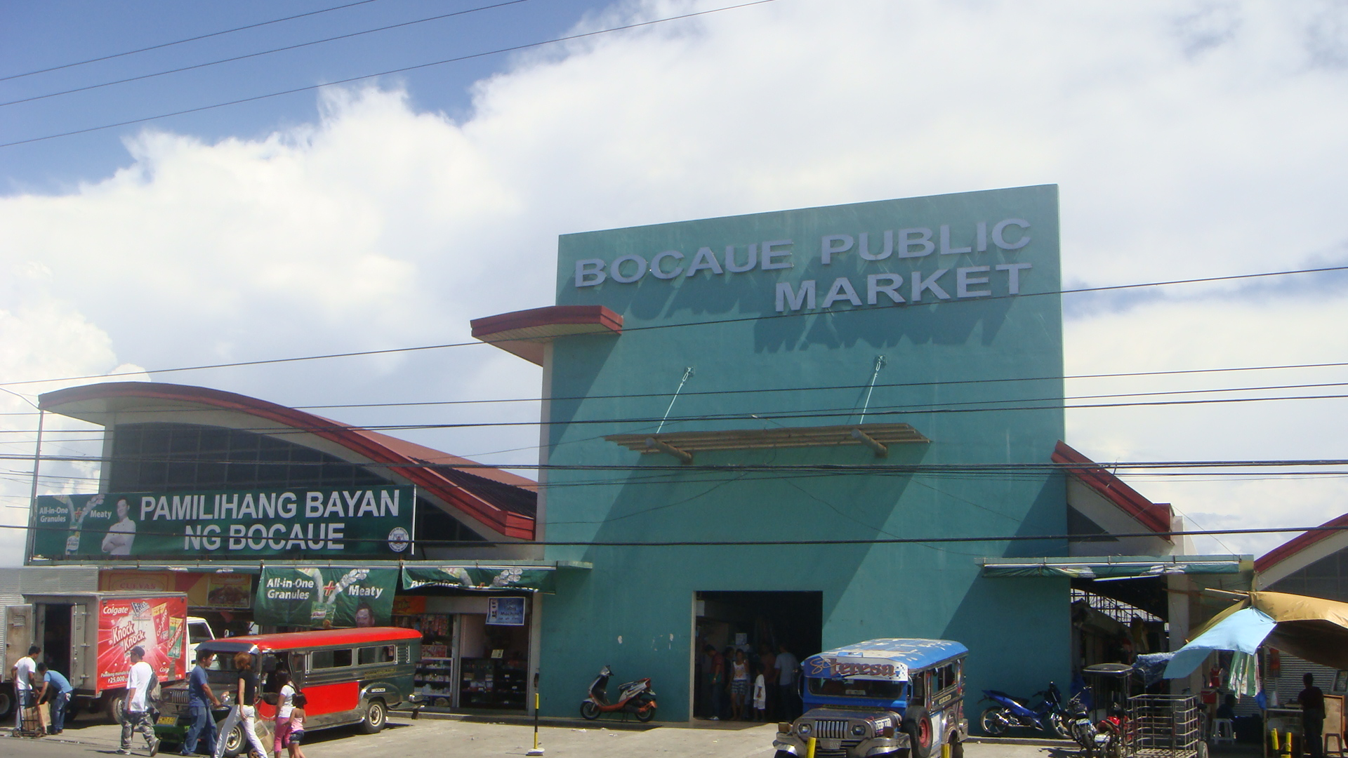 Bocaue Public Market